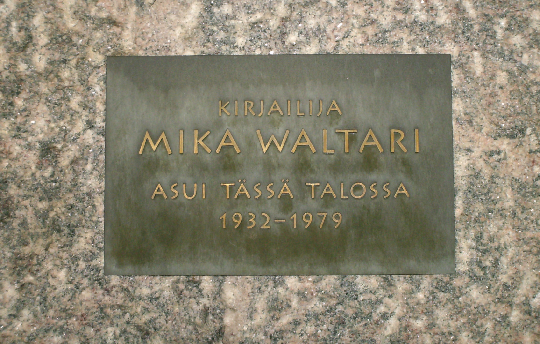 Photograph of the memorial plaque for the Finnish writer Mika Waltari at his home building on Tunturikatu, Etu-Töölö, Helsinki.